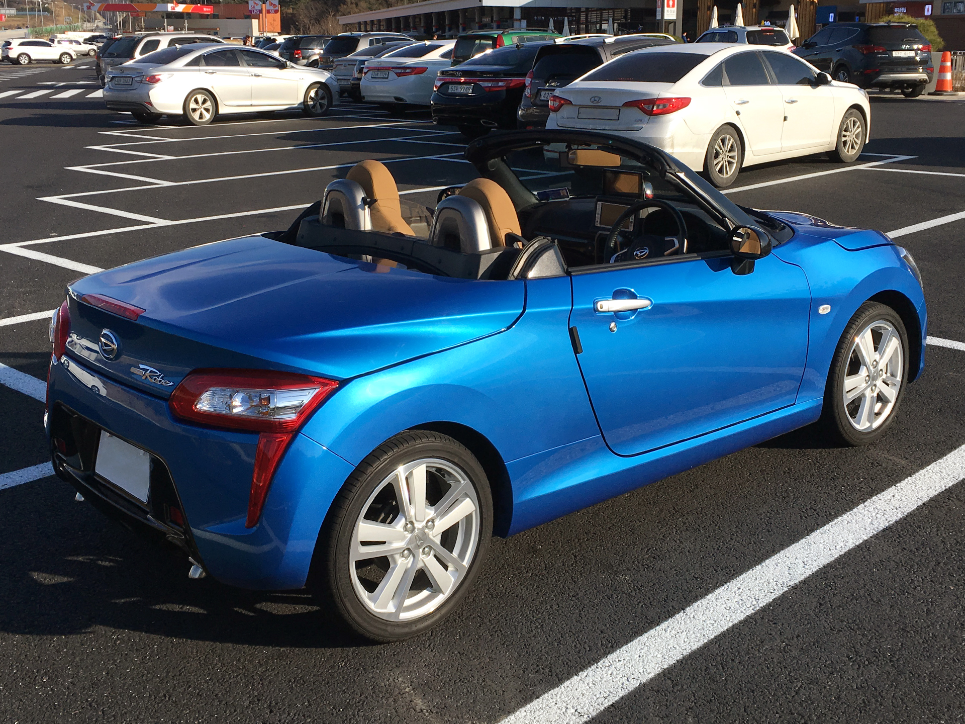 Daihatsu Copen(Robe / 2nd Generation), Rear-side view